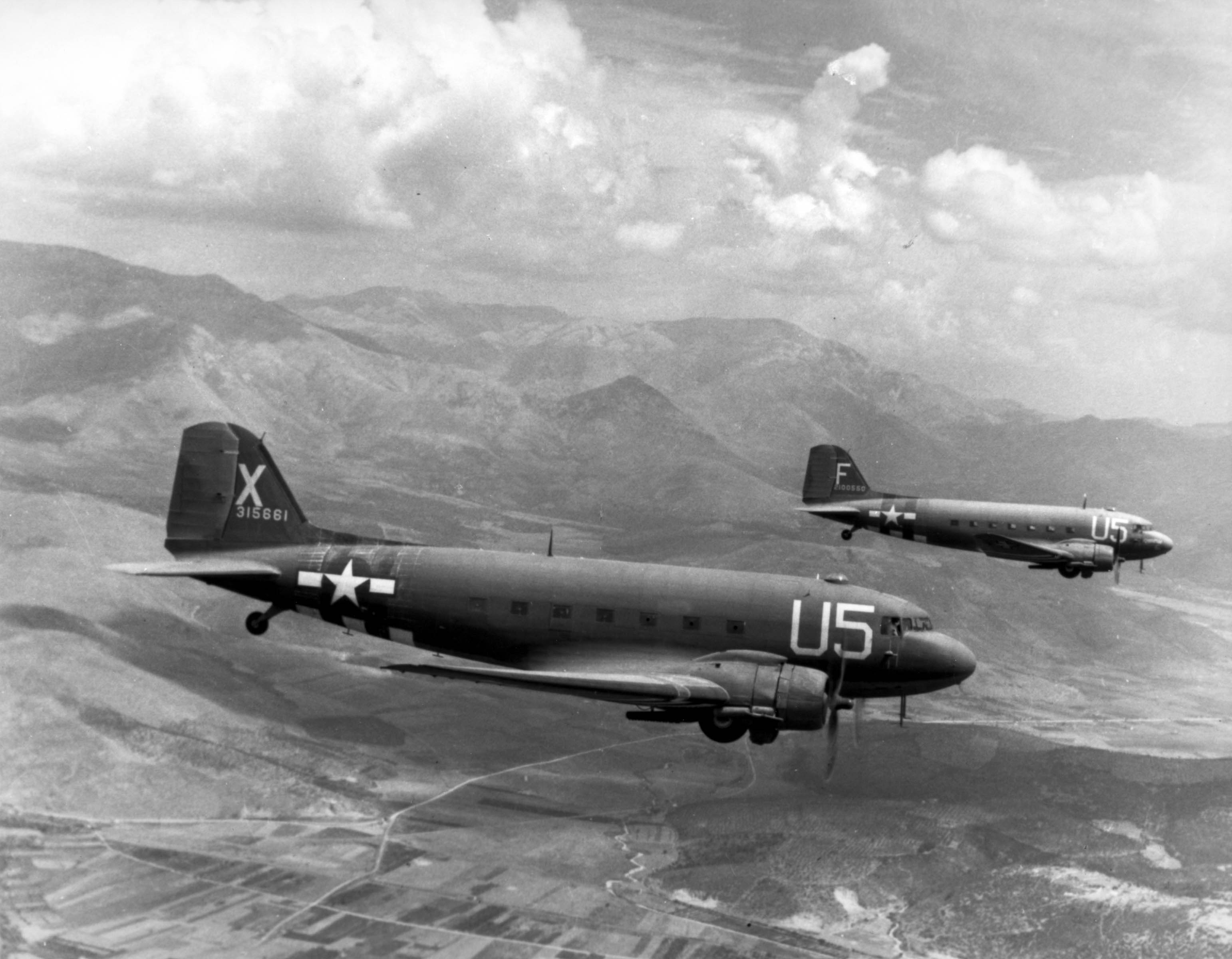 Two USAAF C-47A Skytrains (based on the Douglas DC-3) from the 81st Troop Carrier Squadron, loaded with paratroopers on their way for the invasion of southern France (Operation Dragoon). The aircraft in the back is a Douglas C-47A-65-DL (s/n 42-100550), the other is a C-47A-90-DL (s/n 43-15661).